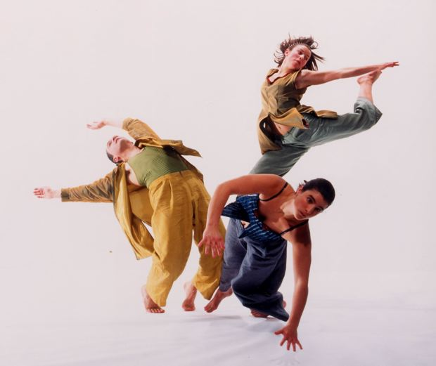 PearsonWidrigTheater